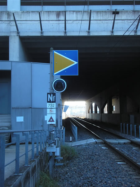 End-block signal of the TVM system in the Marne-la-Vallée-Chessy TGV station